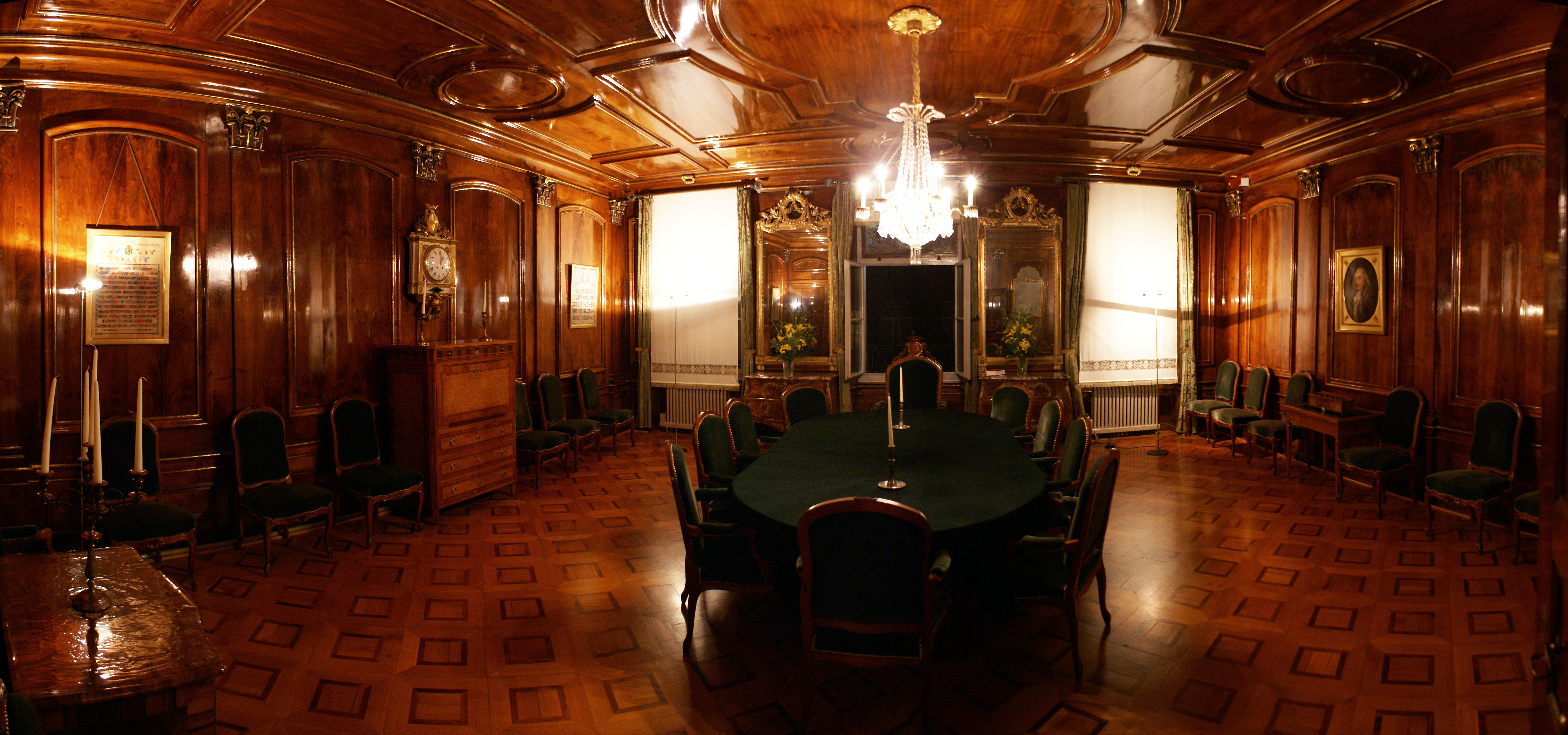 Gesellschaftssaal (society room) in the Zunft zu Kaufleuten, the traders' guild, on Kramgasse 29 in Berne, Switzerland.